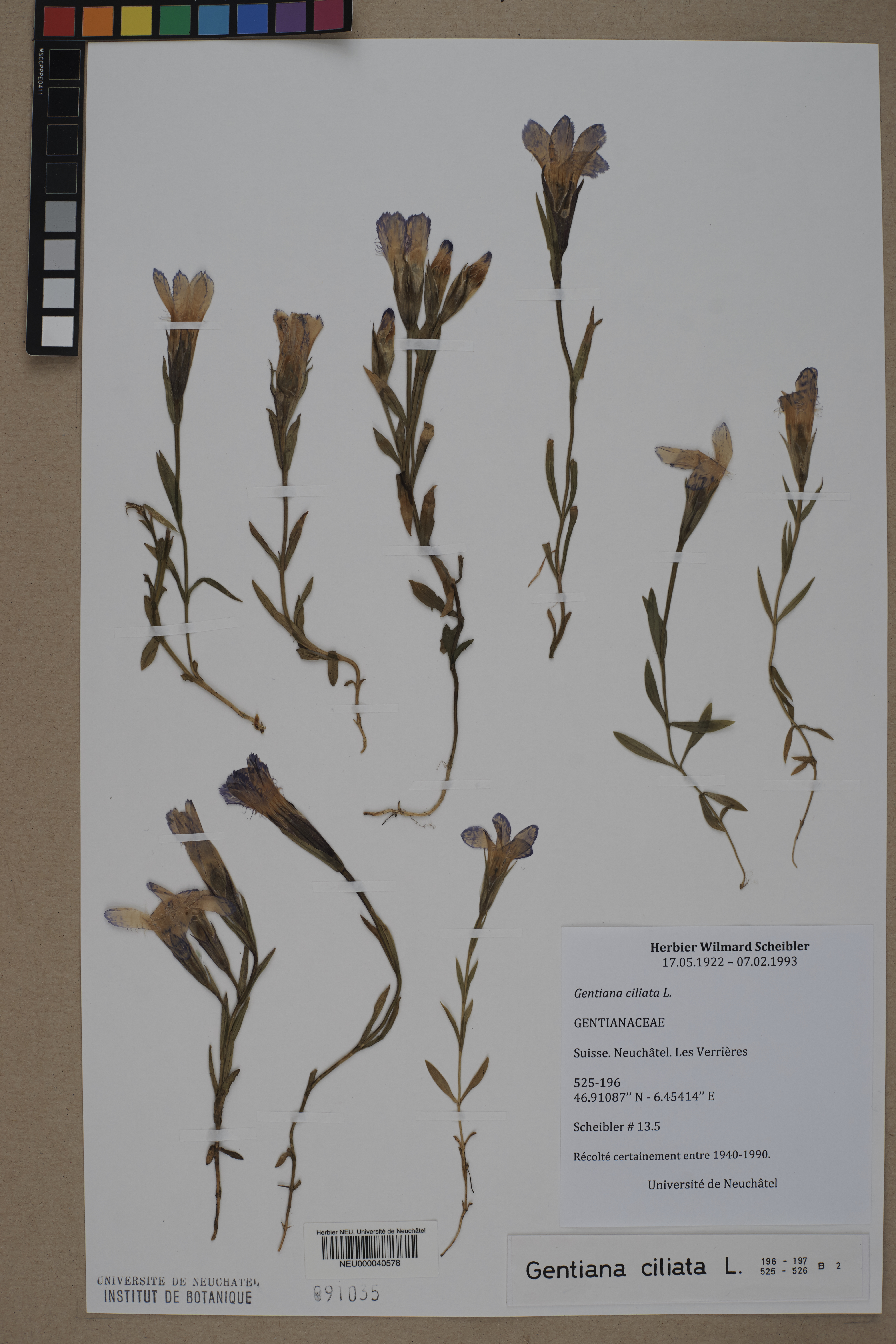 Dried pressed specimen of Gentiana ciliata